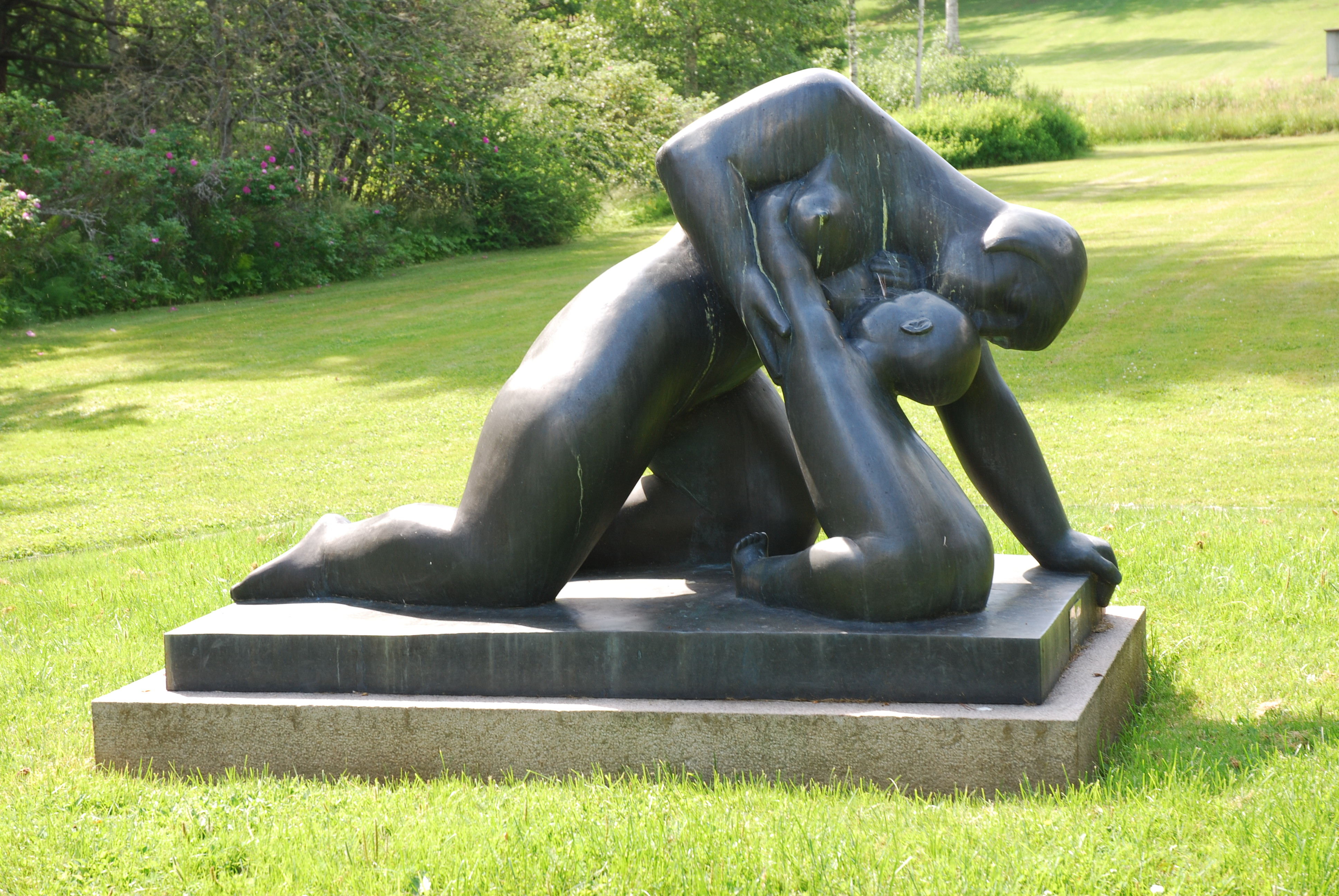 Asmundur Sveinsson´s Moder jord (Mother Earth), 1936, bronze, Rottneros Park in Sweden